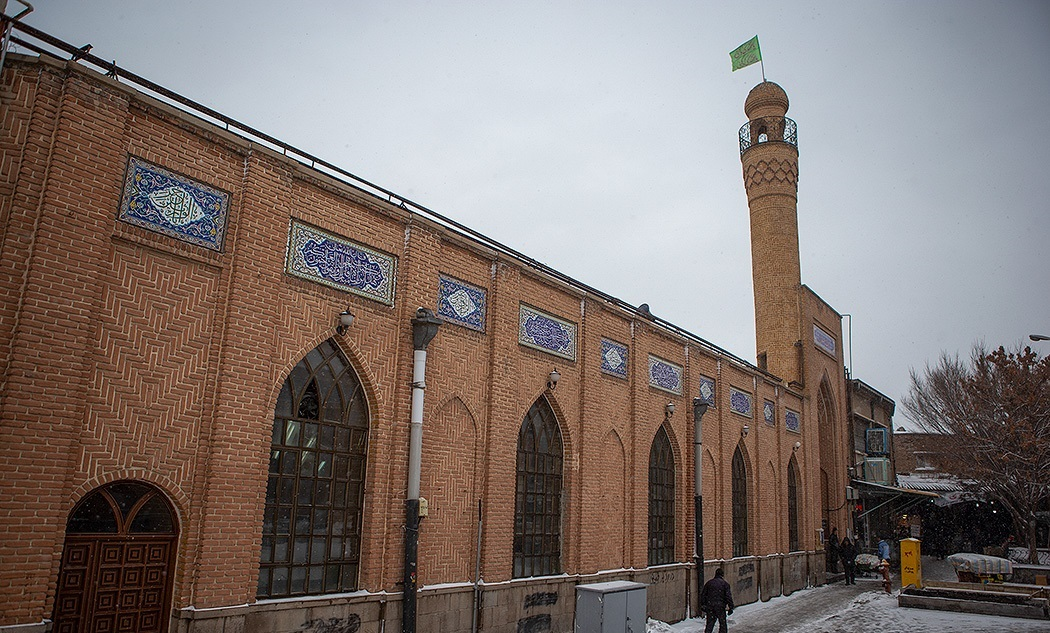 Gizilili Mosque